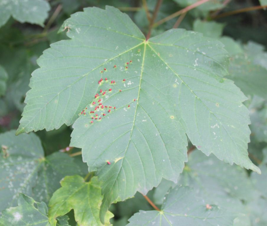 Leaf with red marks - gall mite (Aceria macrorhyncha) on maple